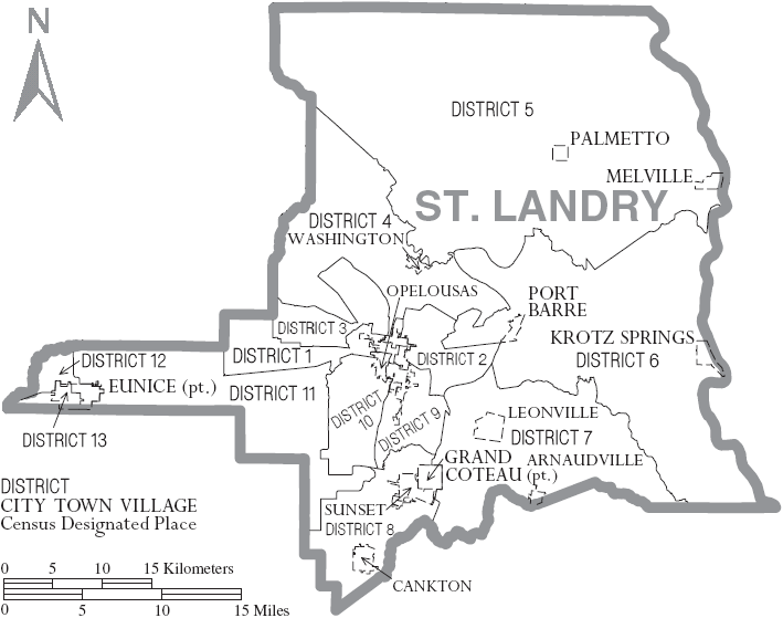 Map of St. Landry Parish, Louisiana, United States with municipal and district boundaries